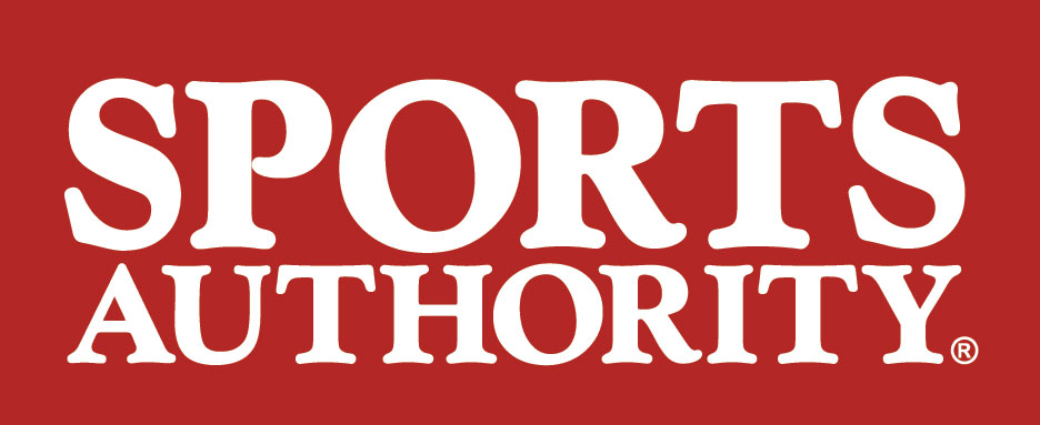 Sports Authority Logo